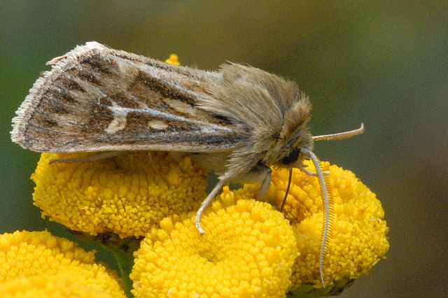 Picture taken in Commanster, Belgian High Ardennes . Species: Cerapteryx graminis